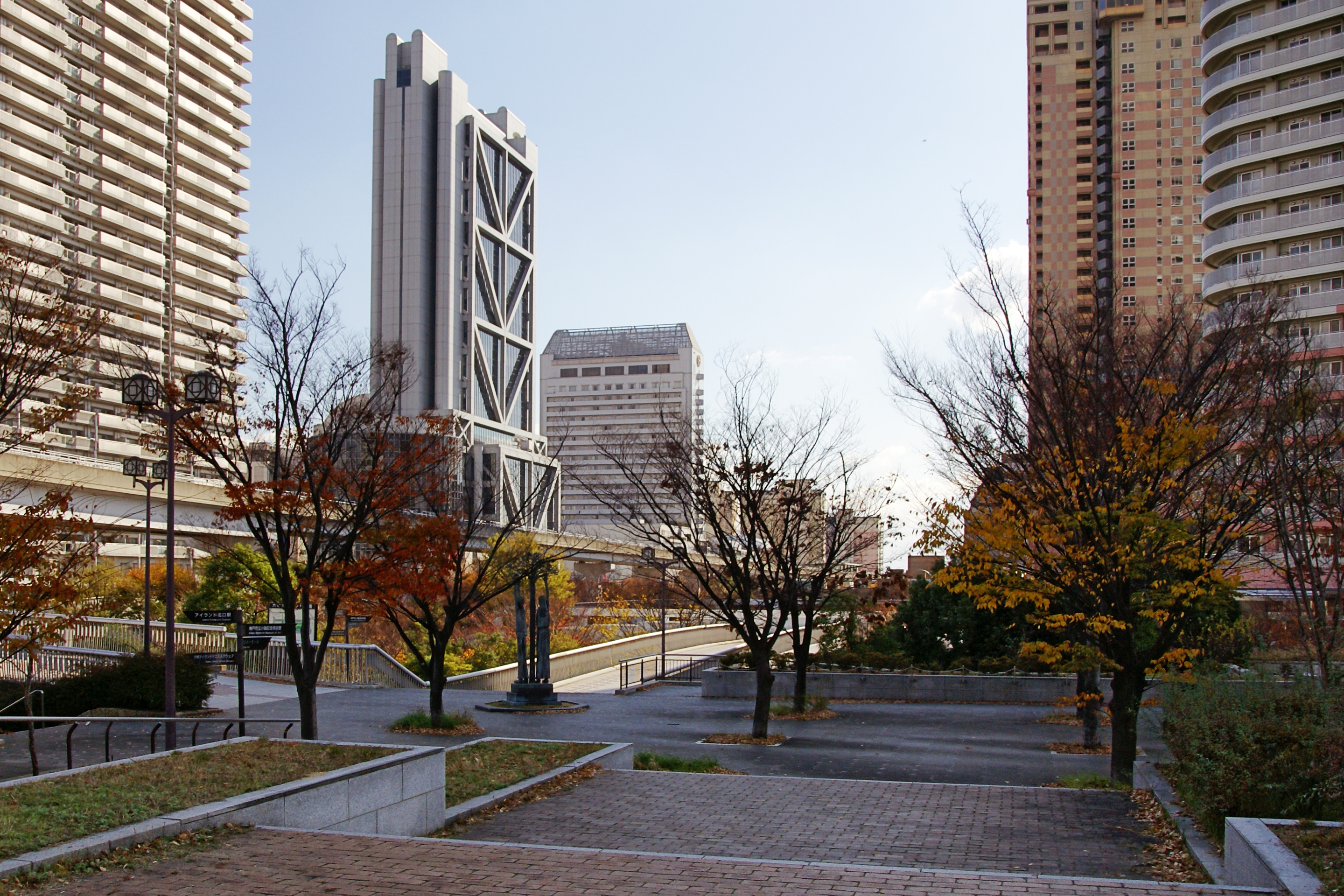 Rokko Island, Kobe, Hyogo prefecture, Japan